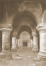 Monastery of Horomos, close to Ani, eastern Turkey.